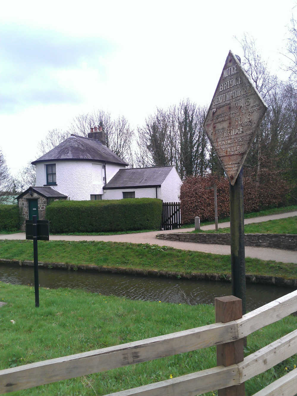 The former toll house called Junction Cottage on the Brecon and Monmouthshire Canal at Pontymoile Basin, near Pontypool.